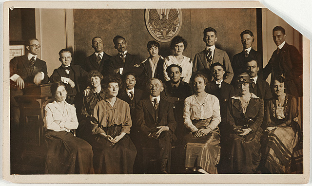 Charles Dawson (back row, fourth from left) and class at the School of the Art Institute of Chicago, c. 1916. Standing to Dawson’s right is Archibald J. Motley, Jr. Professor Karl Buehr is seated in the front row, center. Photograph from the Charles C. Dawson Collection, DuSable Museum of African American History. A gift from Mrs. Mary R. Dawson, deceased.